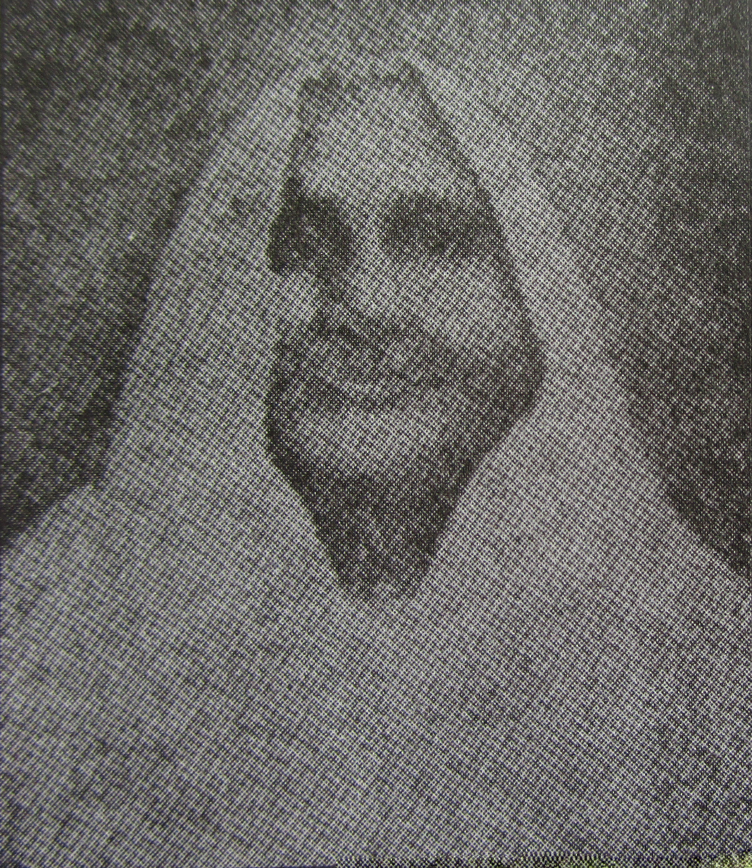 Matangini Hazra (1870 – 1942)